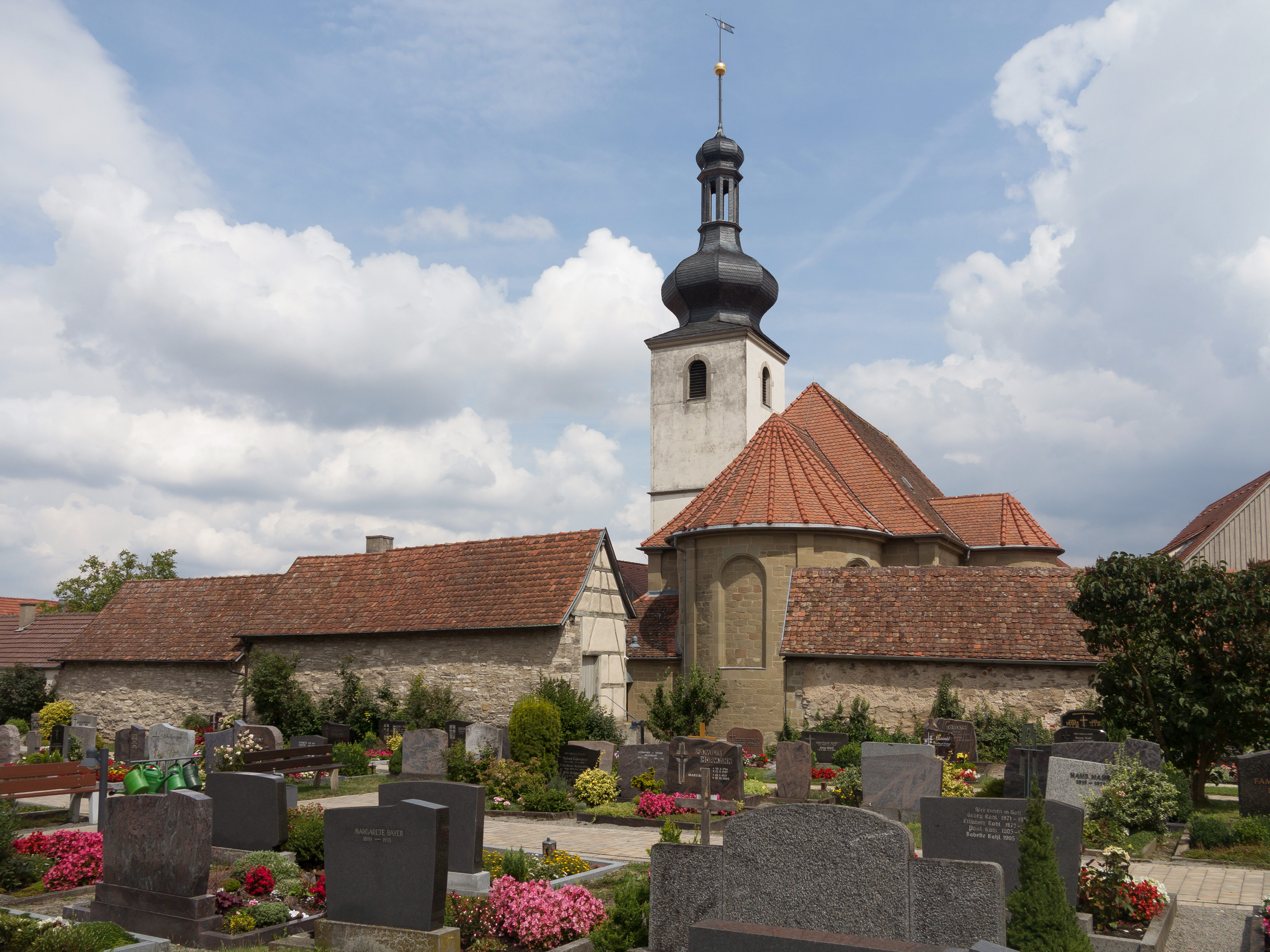 Nenzenheim, church: die evangelisch-lutherische PfarrkircheThis is a photograph of an architectural monument.